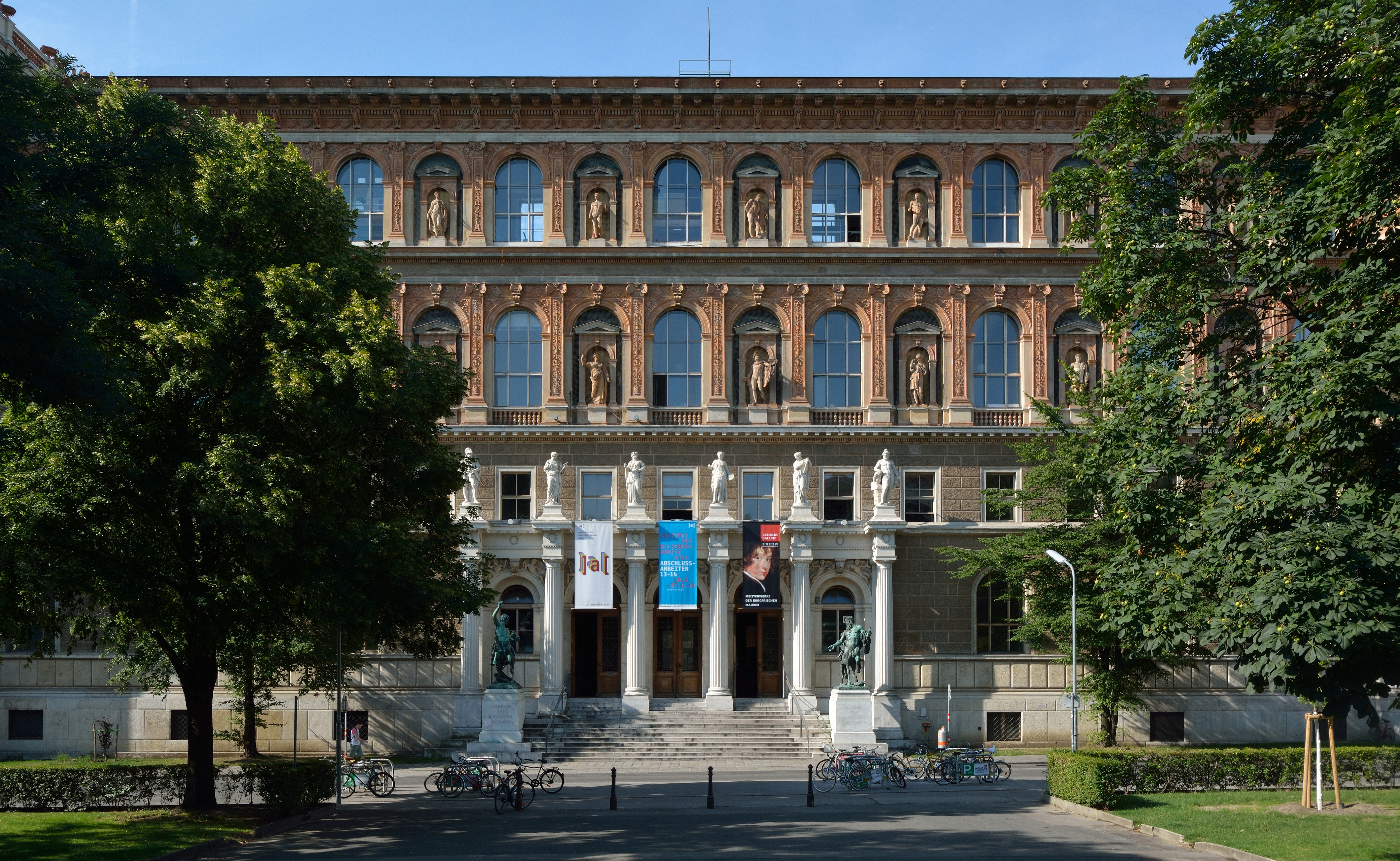 Academy of Fine Arts Vienna, Schillerplatz 3, 1st district of Vienna